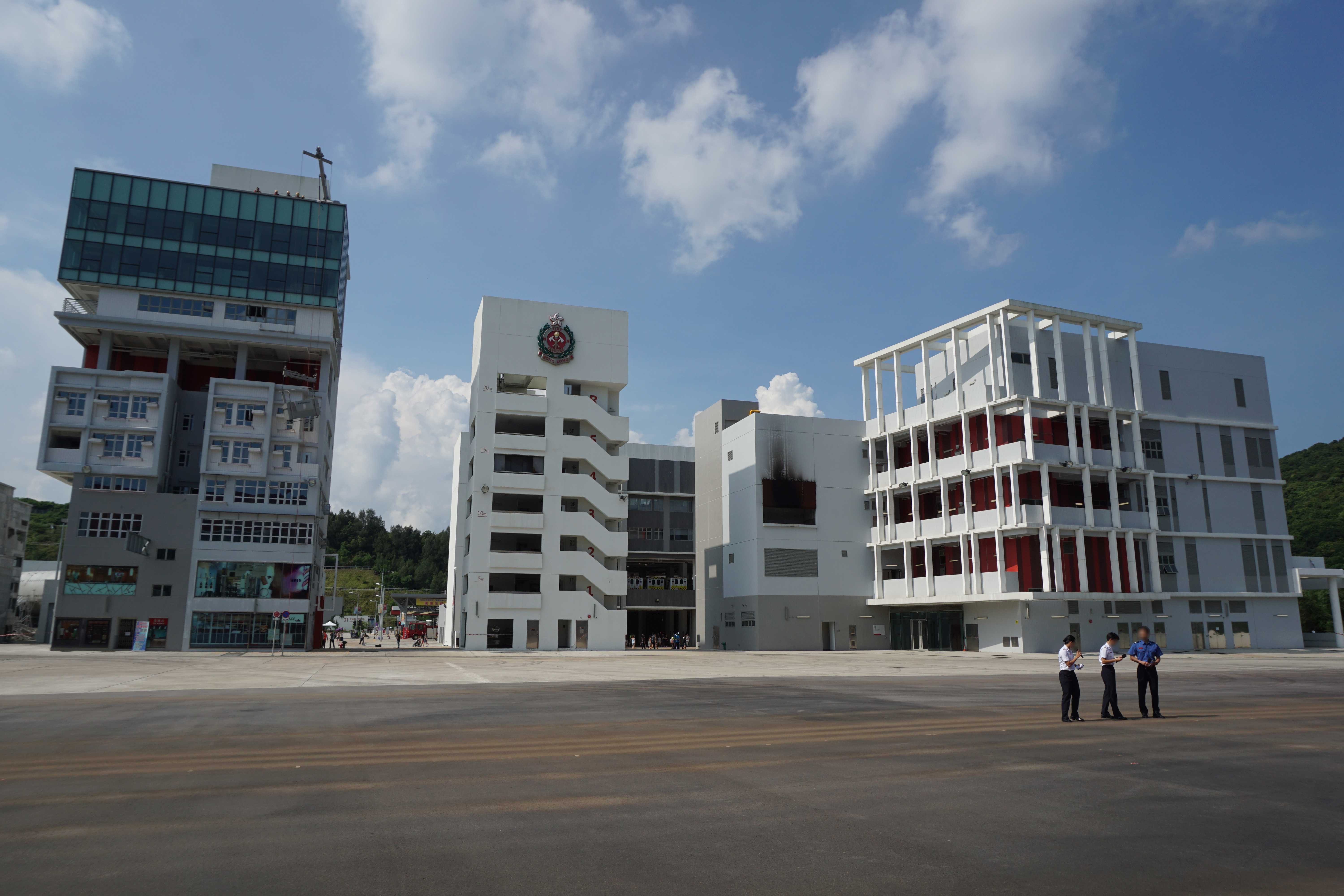 Fire and Ambulance Services Academy in Pak Shing Kok, Hong Kong.